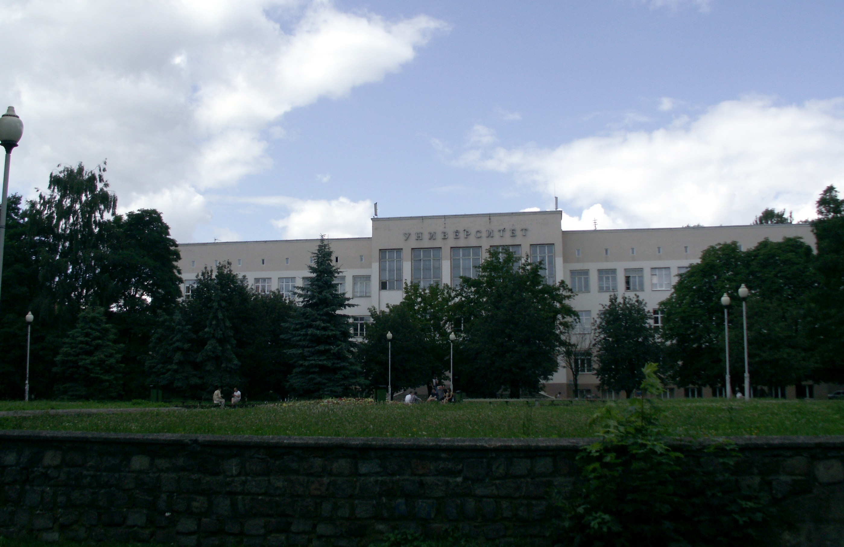 Immanuel Kant State University of Russia in Universitetskaya ul.